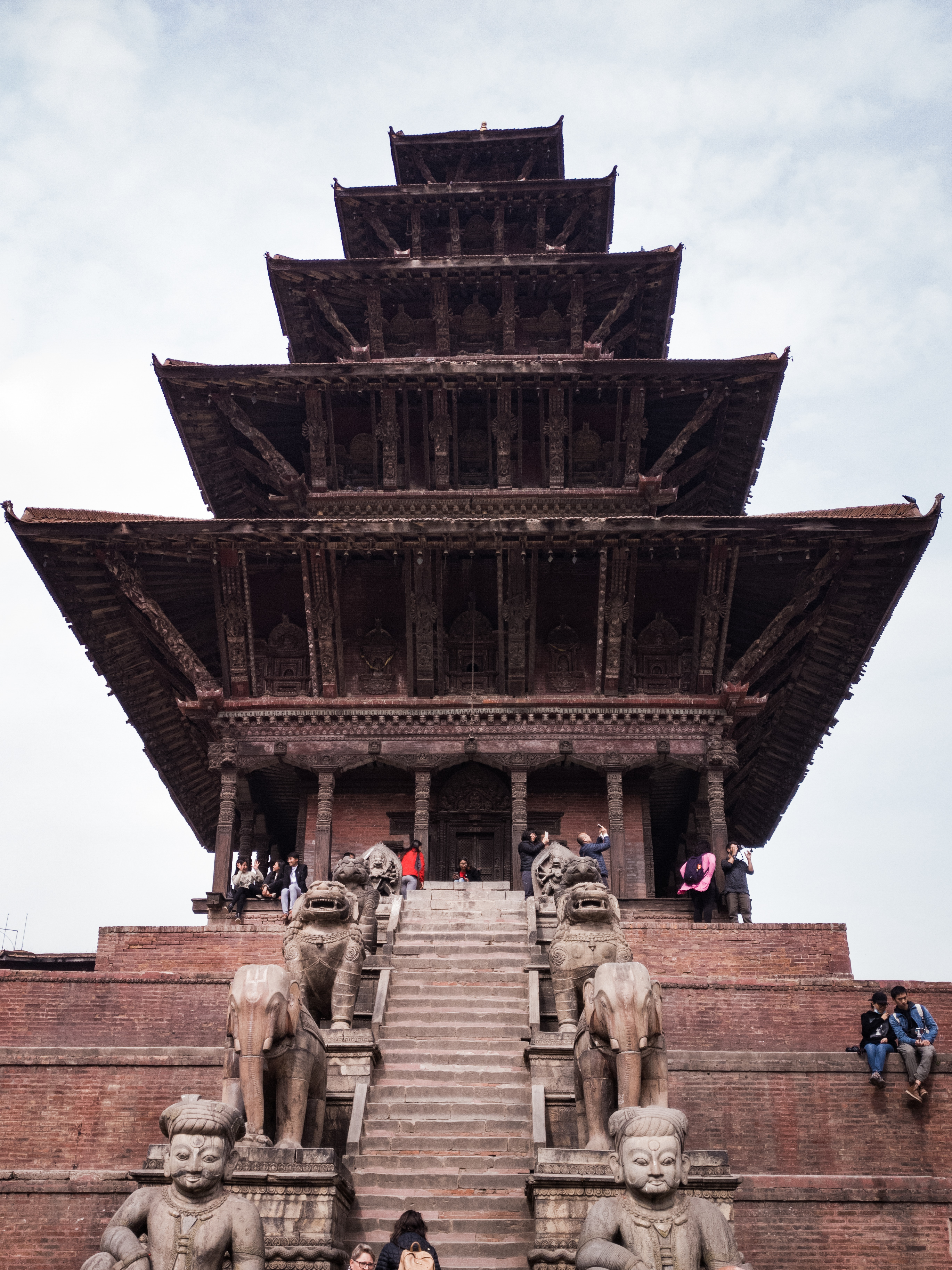 Nyatapola temple